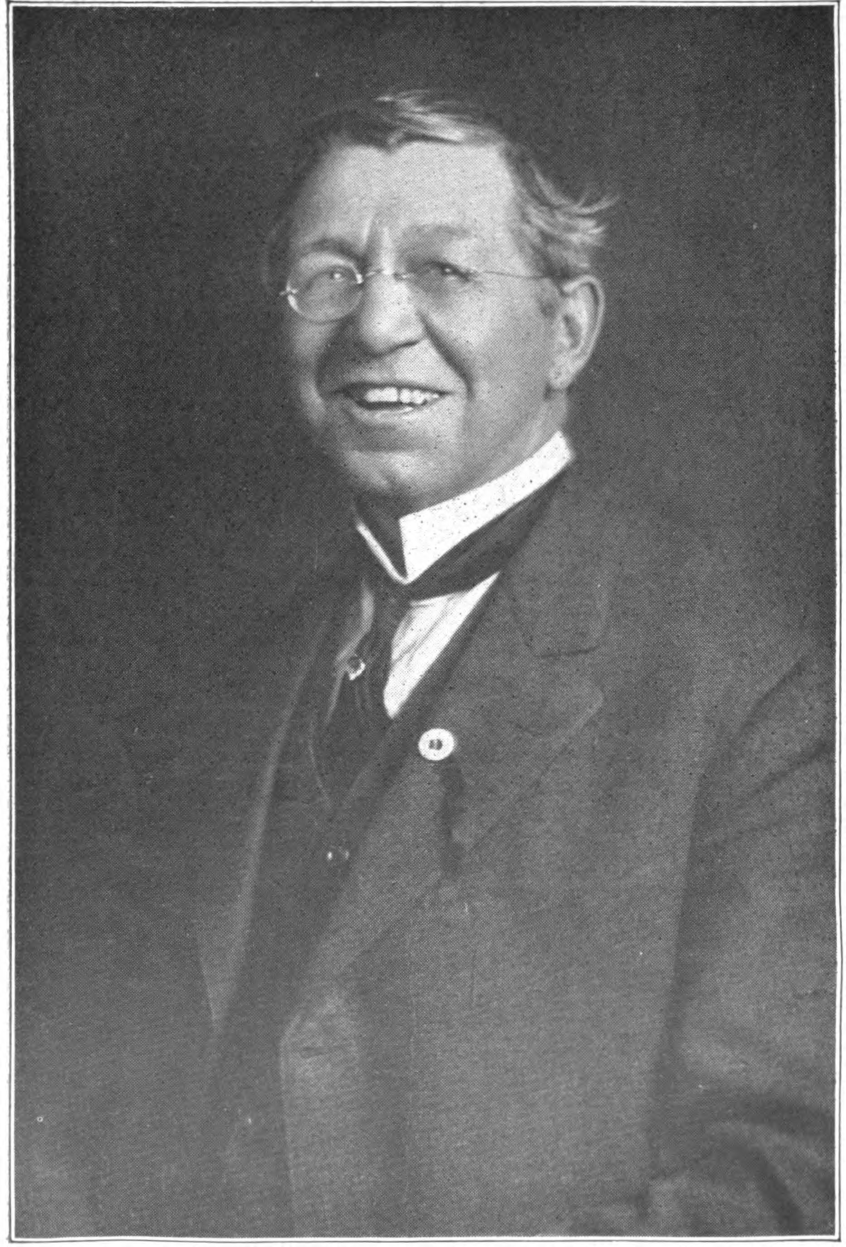 Massillon, Ohio politician and businessman Jacob S. Coxey, Sr..